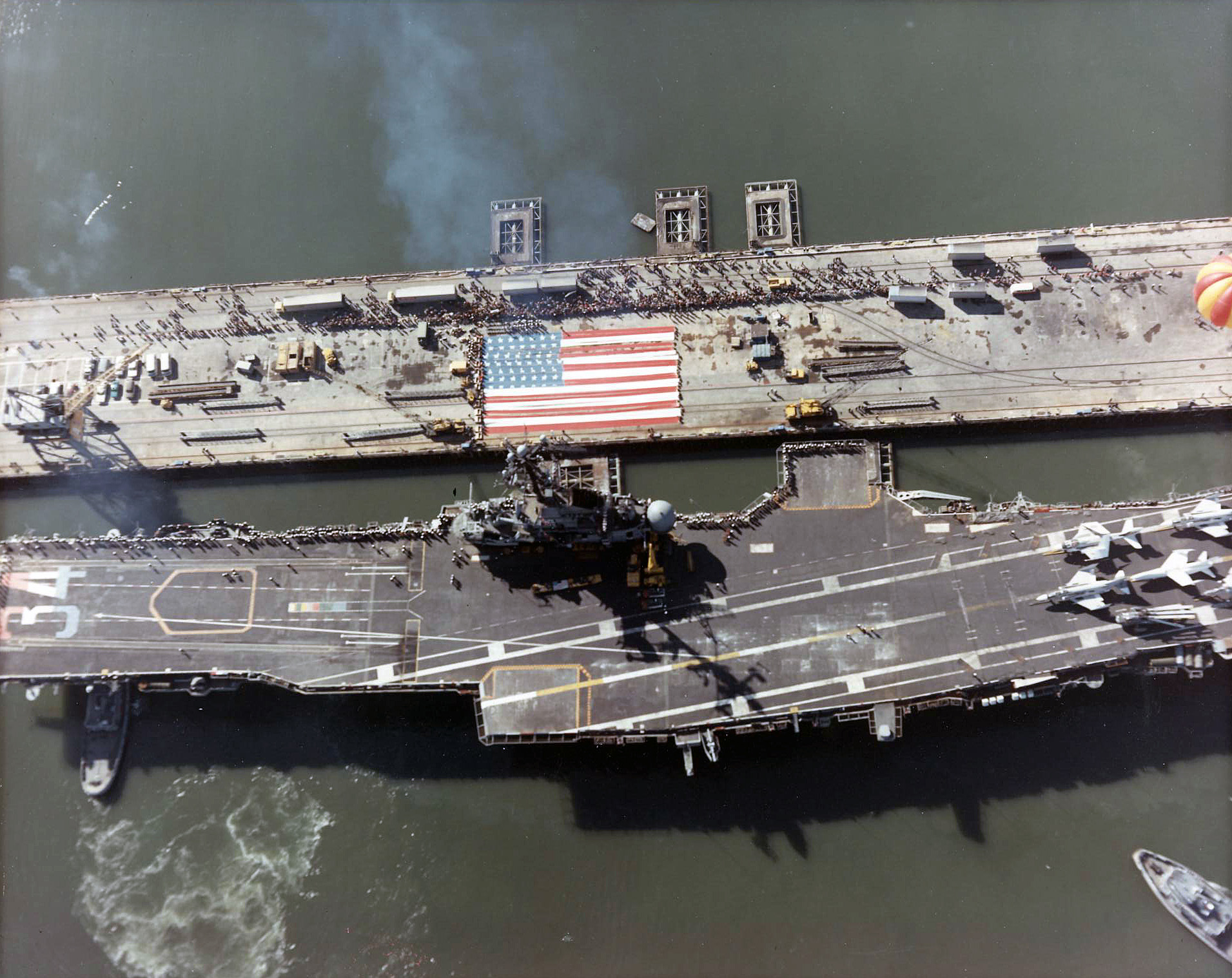 Aerial photograph showing the U.S. Navy aircraft carrier USS Oriskany (CV-34) on the day of her last return from a deployment on 3 March 1976 (probably at Naval Air Station Alameda, California). Oriskany had been deployed to the Western Pacific with Carrier Air Wing 19 (CVW-19) from 16 September 1975 to 3 March 1976. She was decommissioned as the last active Essex-class carrier on 20 September 1976. Note that among the aircaft on her deck are two McDonnell Douglas F-4 Phantom and a Grumman A-6 Intruder, aircraft that were actually never deployed on any Essex-class carrier.